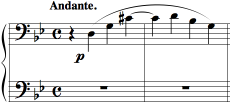 Franz Liszt's later years composition, Nuages Gris